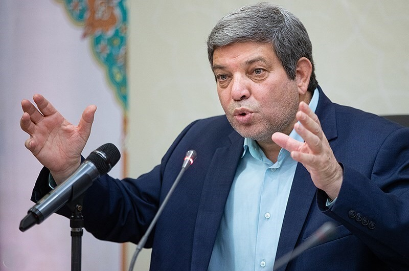 Seyyed Javad Hoseyni